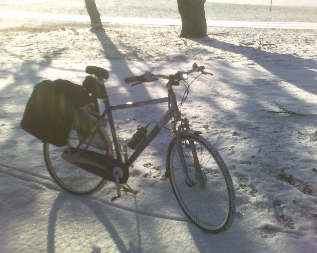 This is a photograph of my own Trek L-300s bicycle customized for winter commuter riding.